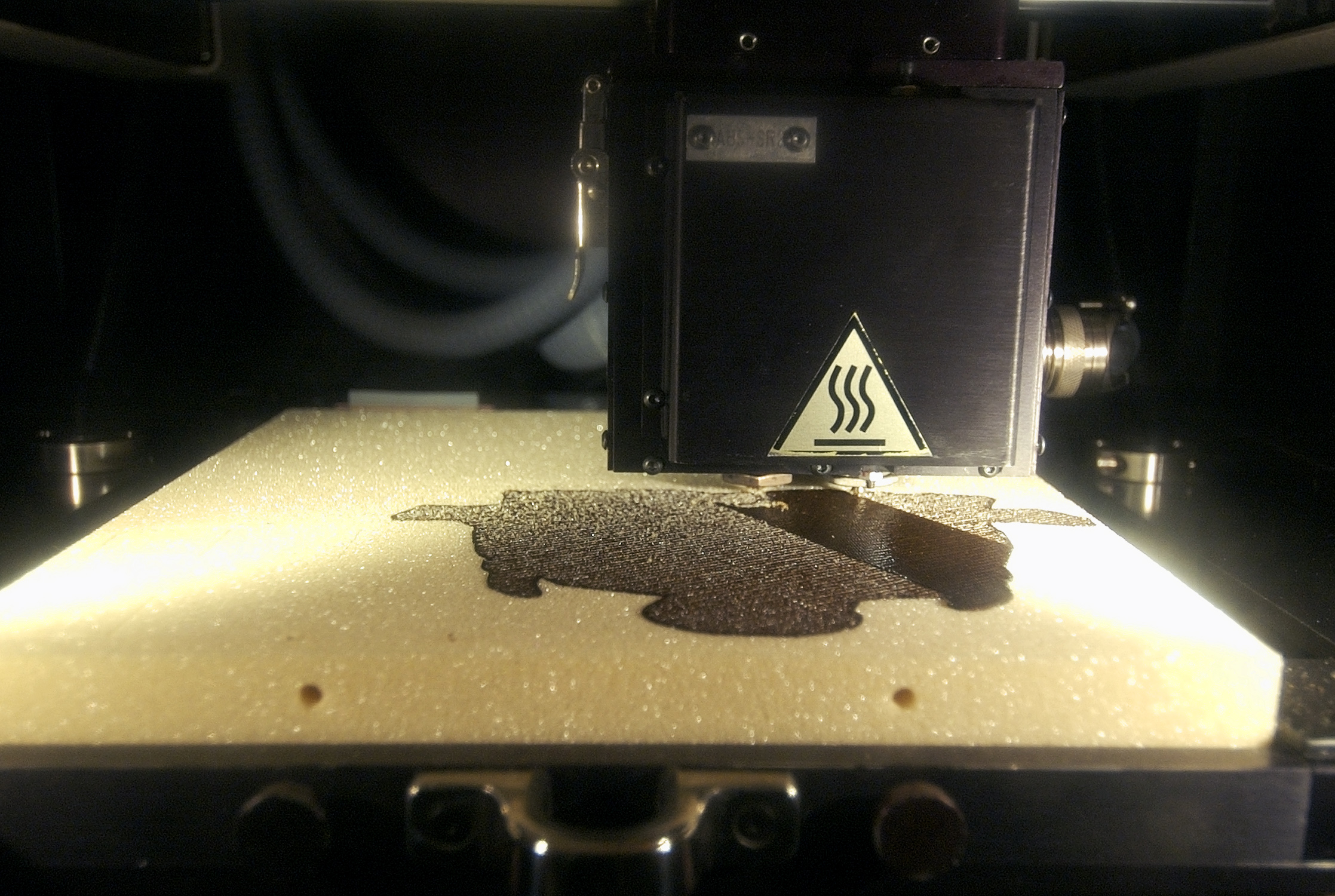 National Naval Medical Center, Bethesda, Md., (Aug. 21, 2003) -- The MedModeler lays down a brown supportive base before building a full scale model at the National Naval Medical Center in Bethesda, Maryland. The machine uses third dimensional input generated bydata captured from magnetic resonance imaging to create an exact scale model for physicians and surgeons to study. The model created eliminates some probative surgeries and allows a replacement device to be built before surgery. U.S. Navy photo by Chief Warrant Officer 4 Seth Rossman. (RELEASED)